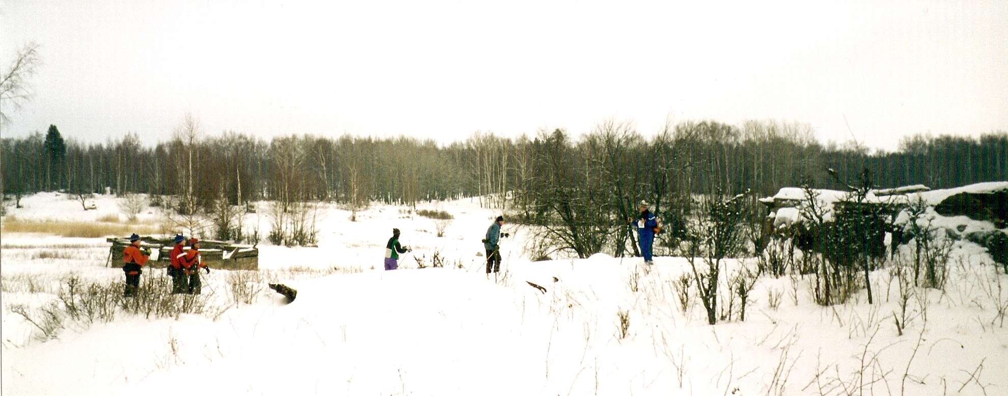 Finnish icebreaker Tarmo rescue of fishermen